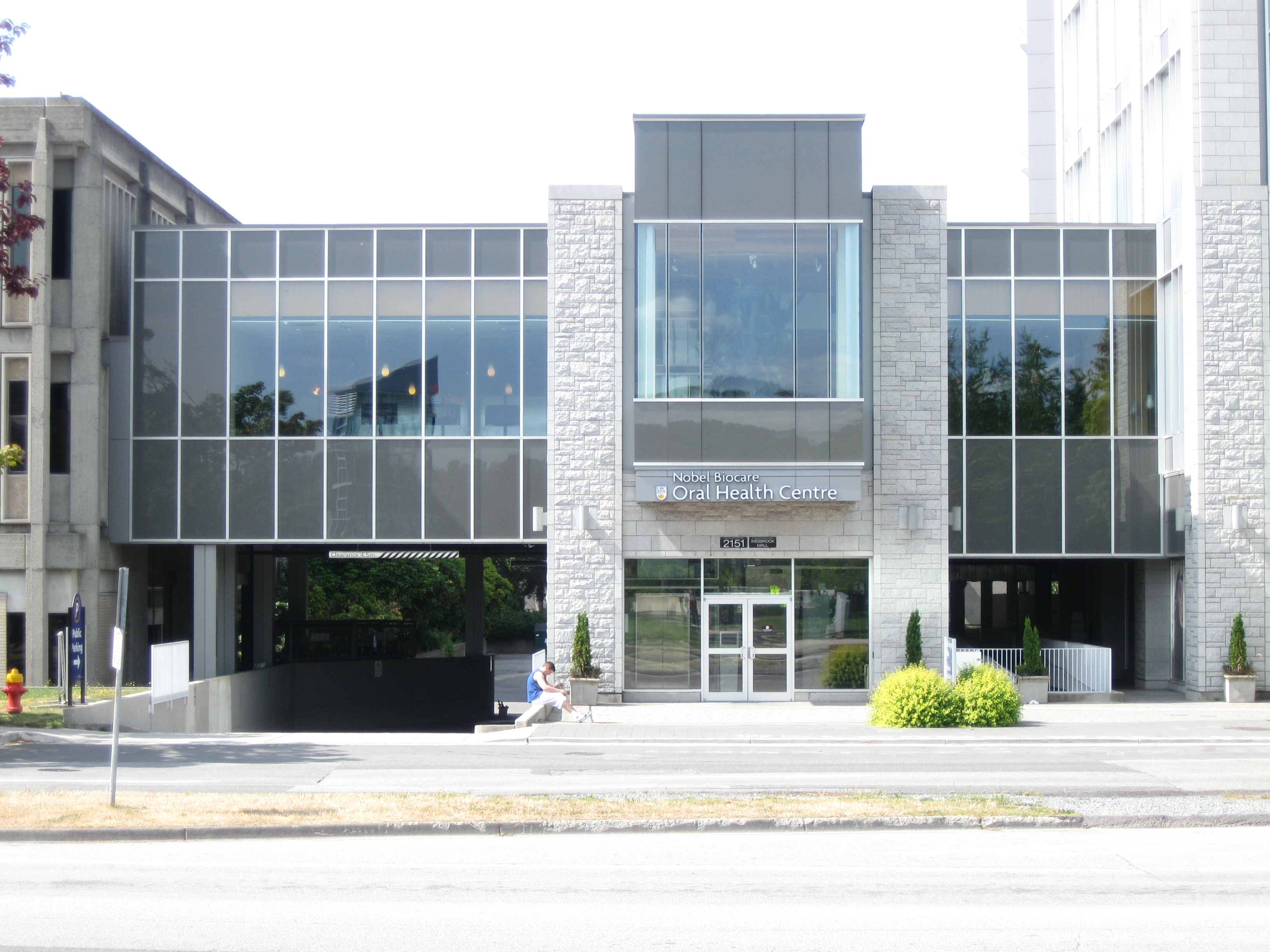 The Nobel Biocare Oral Health Centre building at UBC's Vancouver Point Grey campus at 2151 Wesbrook Mall in Vancouver, BC, Canada. This is a relatively modern building which opened in the spring of 2006, serves 35,000 patients per year, occupies the second level of the David Strangway Building and is a 39,000 square feet clinical facility. See this reference from UBC Dentristry